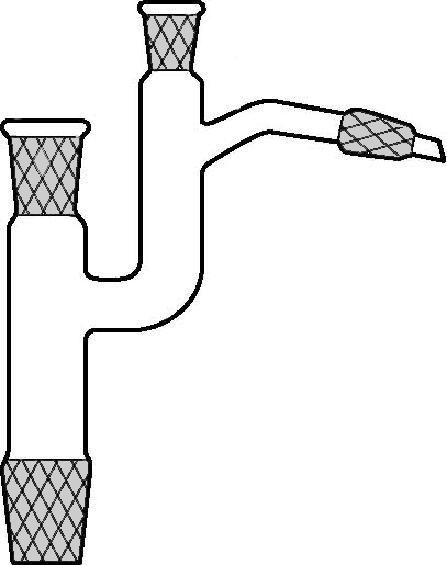 Кляйзена насадка